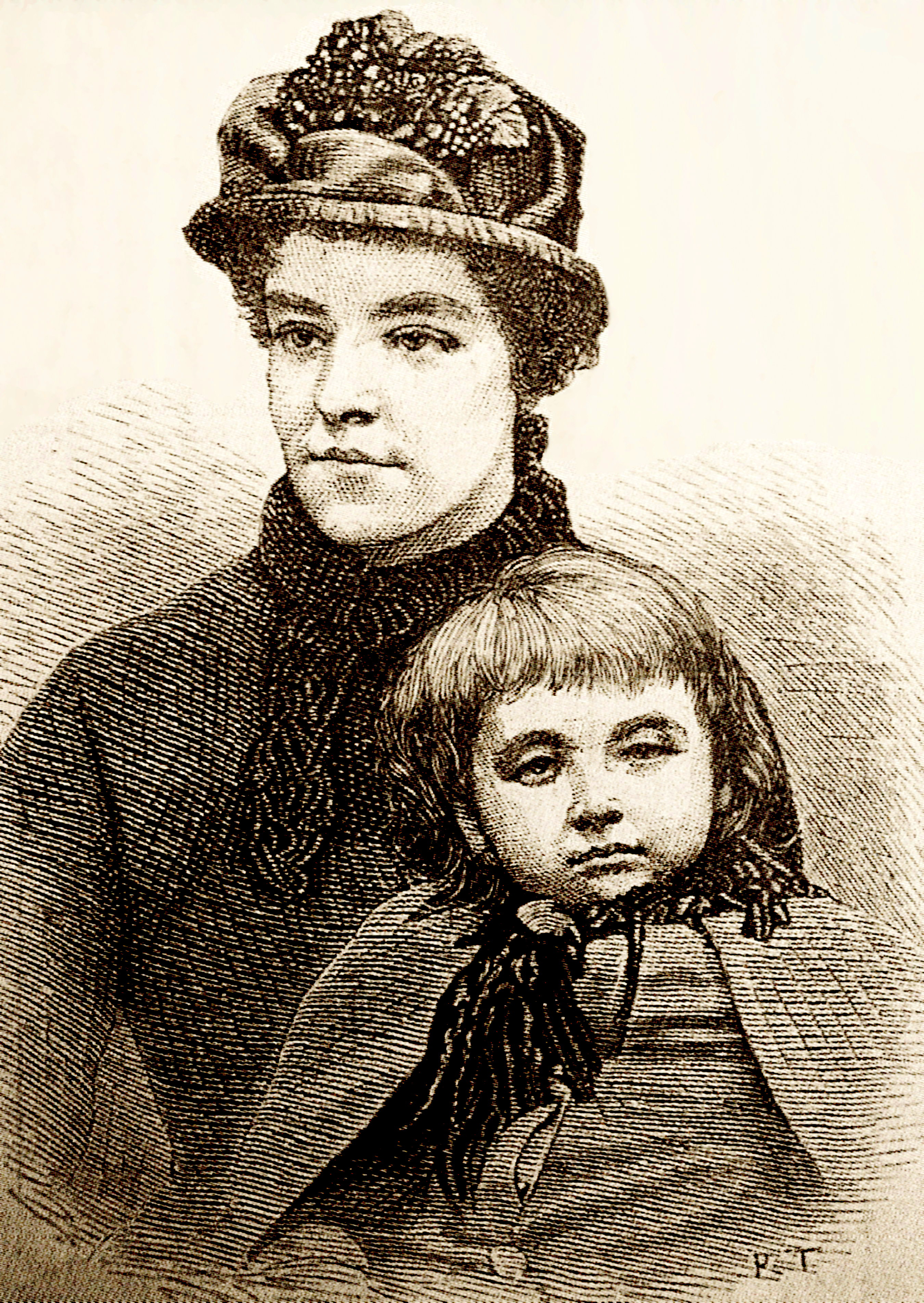 Alice Ayres (d. April 24, 1885)